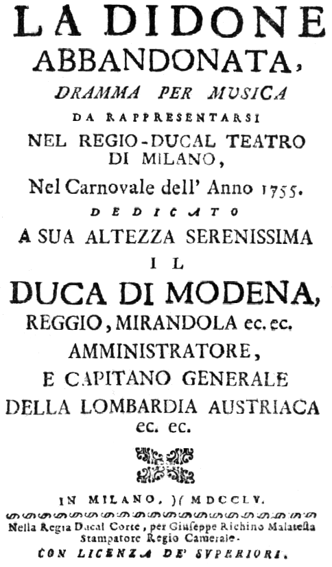 Giovanni Andrea Fioroni - Didone abbandonata - titlepage of the libretto - Milano 1755